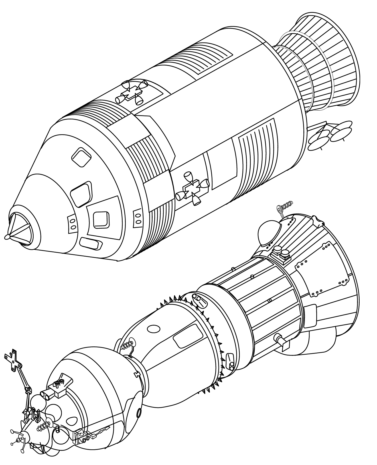 Figure 4-3. Apollo CSM (top) and L2 (drawn to scale). Command ships for the Moon voyage.